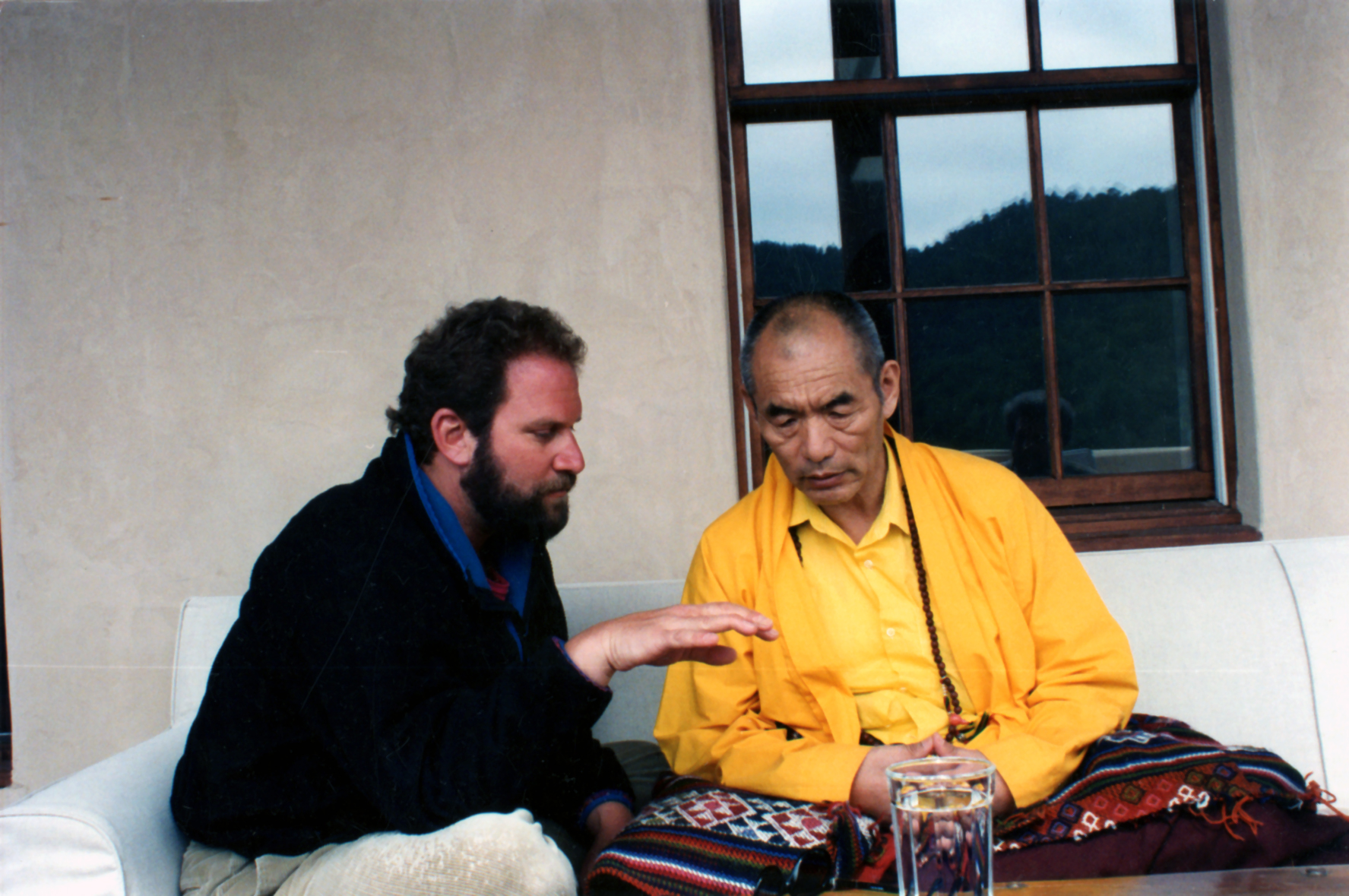 Surya Das and friend